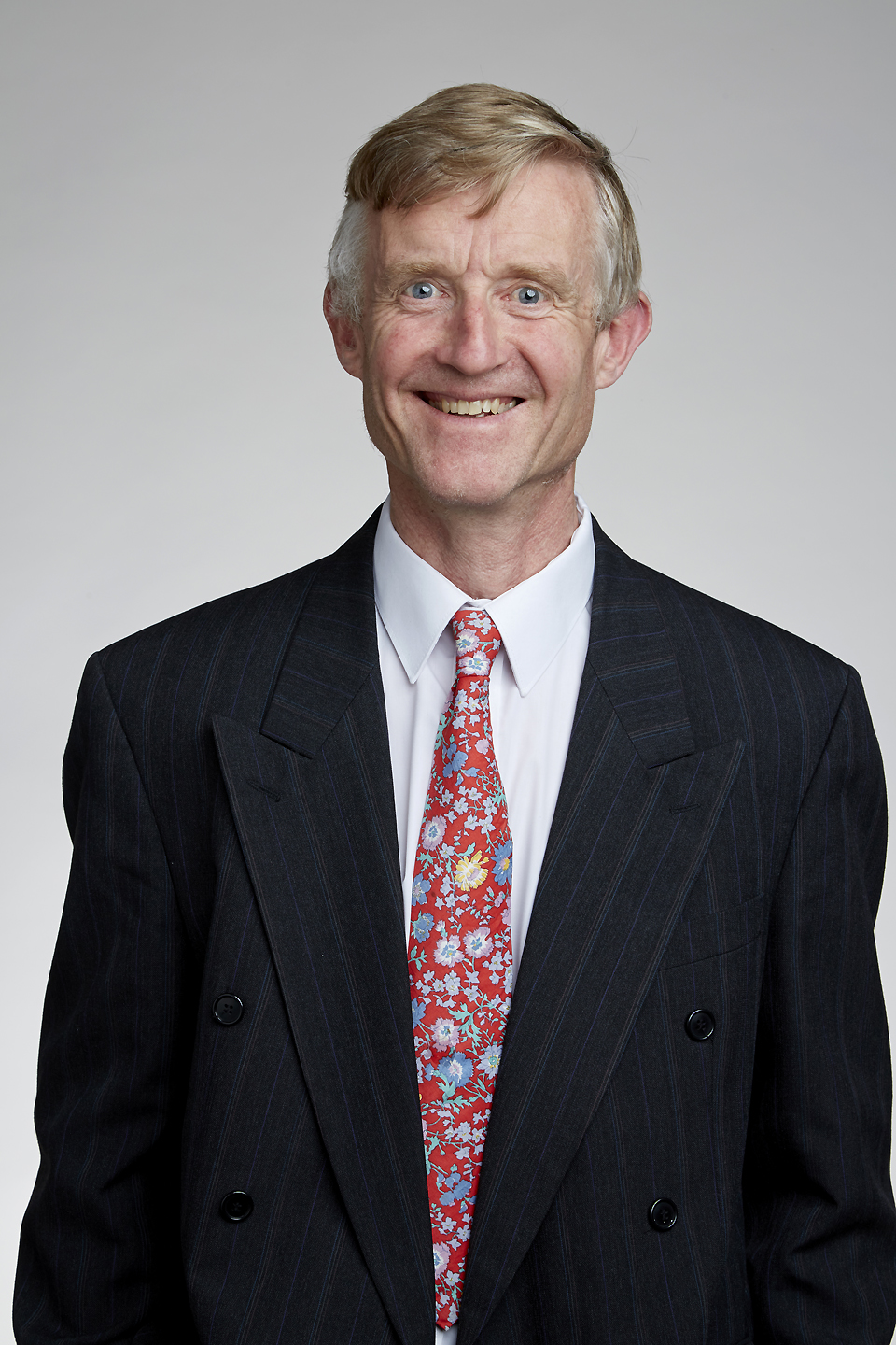 Simon Peyton Jones FRS (born 18 January 1958) is a British computer scientist who researches the implementation and applications of functional programming languages, particularly lazy functional programming. He is an honorary Professor of Computer Science at the University of Glasgow Attribution: The Royal Society